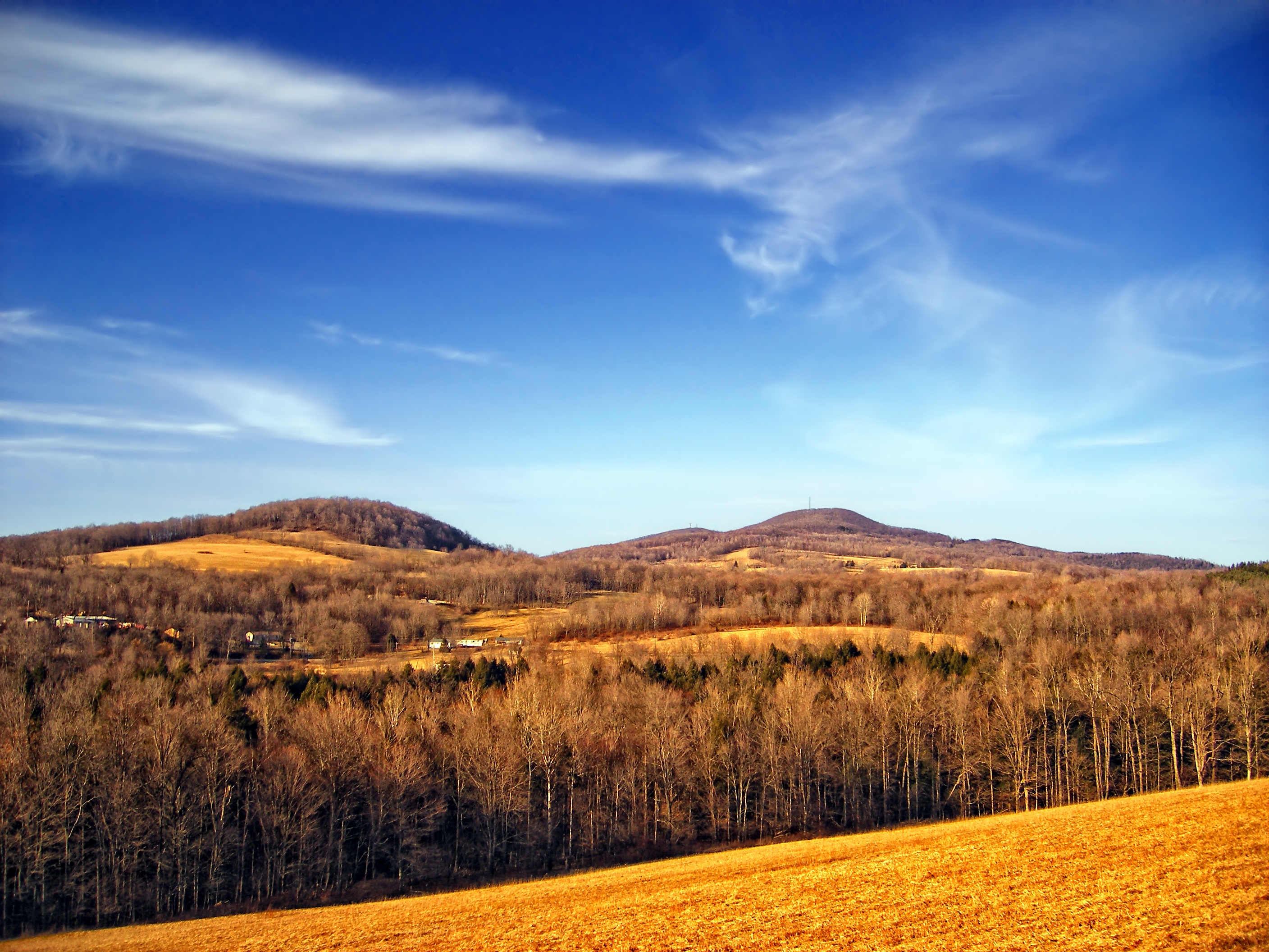 Elk Hill, or Elk Mountain, Susquehanna County. At approximately 2693 feet (821 meters), the ridge is among the highest in eastern Pennsylvania.